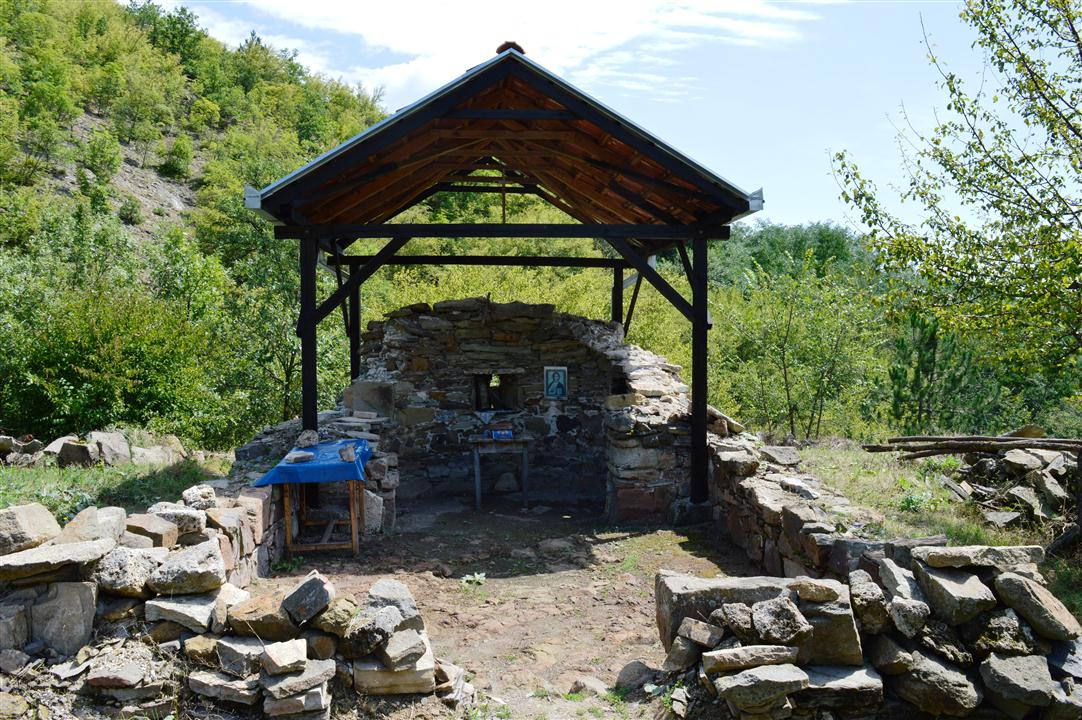 Raska Municipality -Baljevac, Jarando